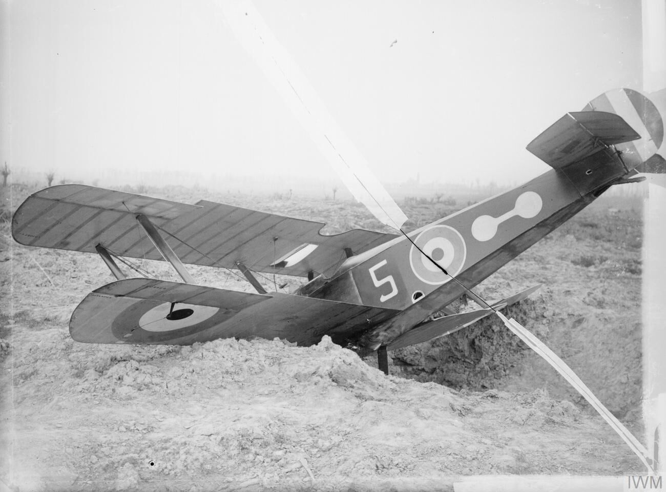 The Battle of Passchendaele, July- November 1917 Battles of Ypres 1917. A Sopwith Camel biplane with its nose buried in the ground after being forced down. At Clapham Junction, in front of Zillebeke, 26th September 1917.